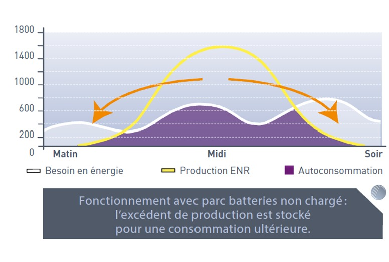 Storage of the surplus of solar energy for later self use in the evening or early morning